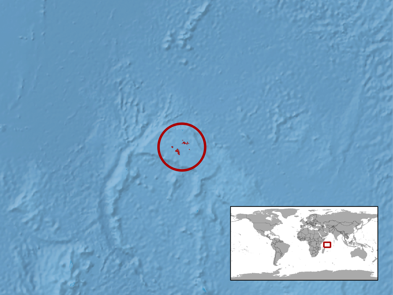 geographic distribution of Phelsuma astriata (Native: Seychelles)